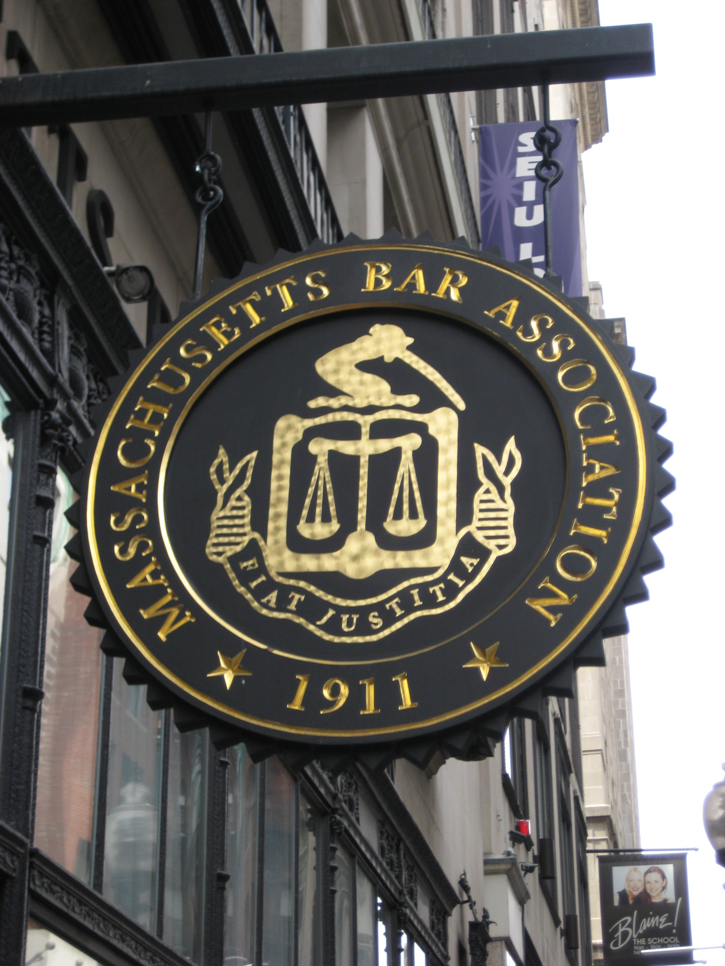 Sign outside quarters of the Massachusetts Bar Association in Downtown Crossing, Boston, Massachusetts. February 2009 photo by John Stephen Dwyer